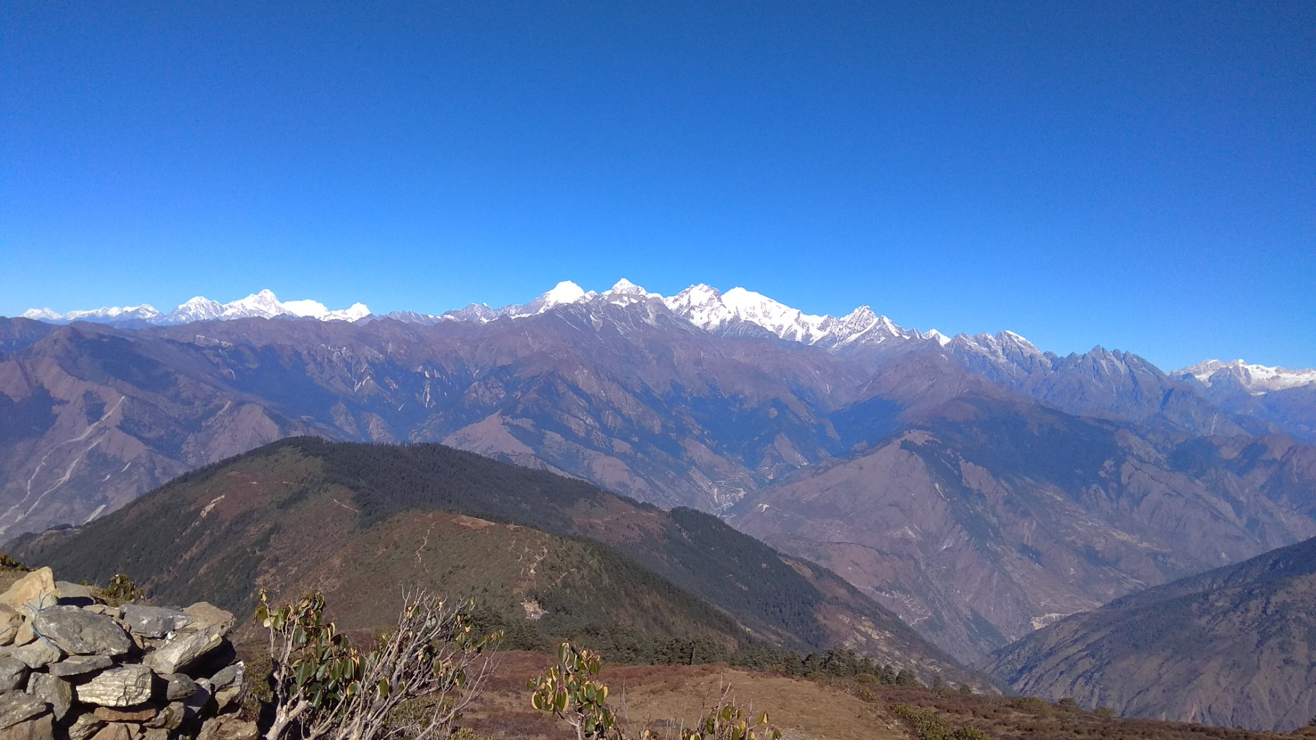 Boundaries of Langtang national park woth himalayas.